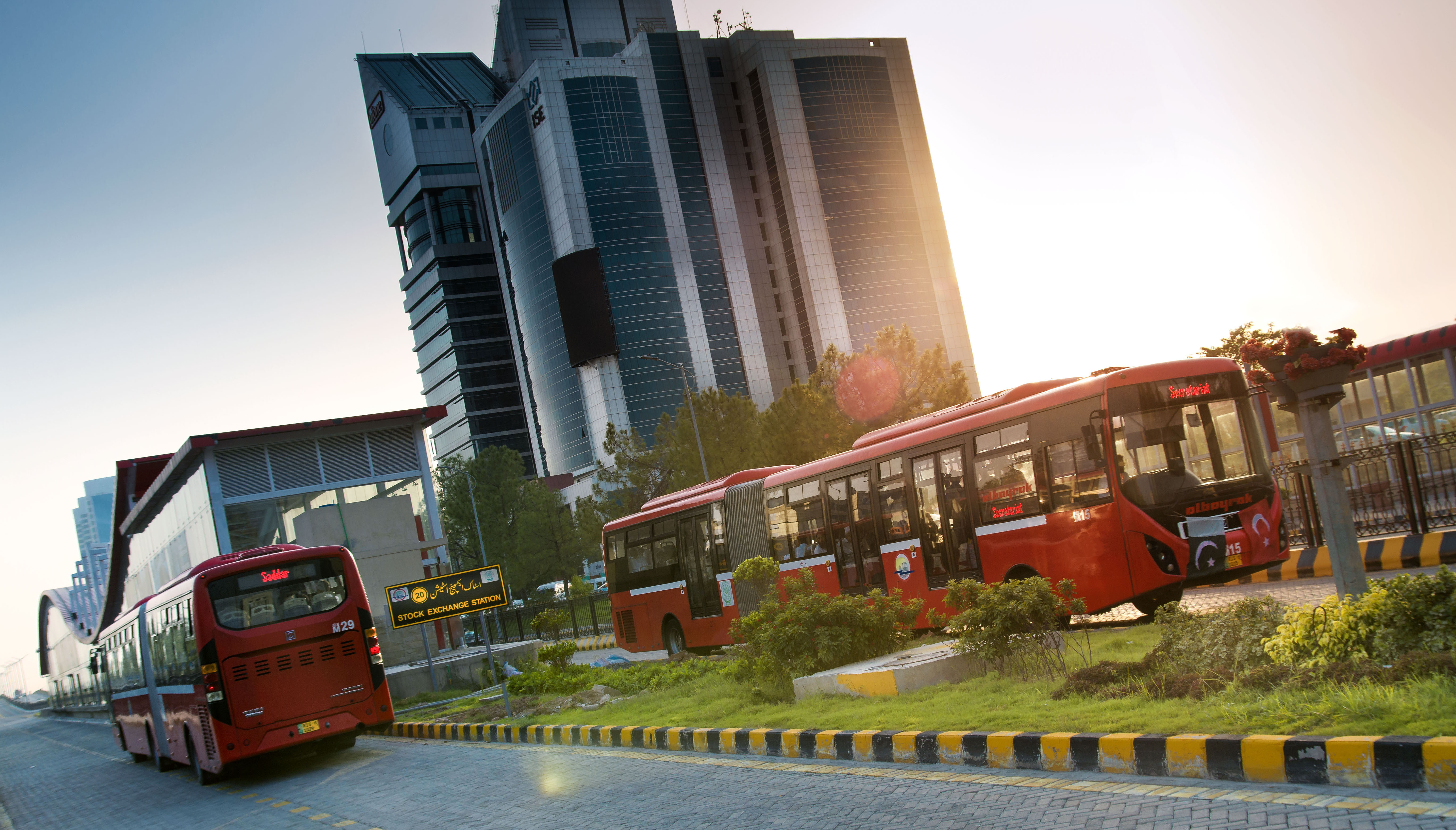 Metro Bus running on the roads of Blue Area Islamabad